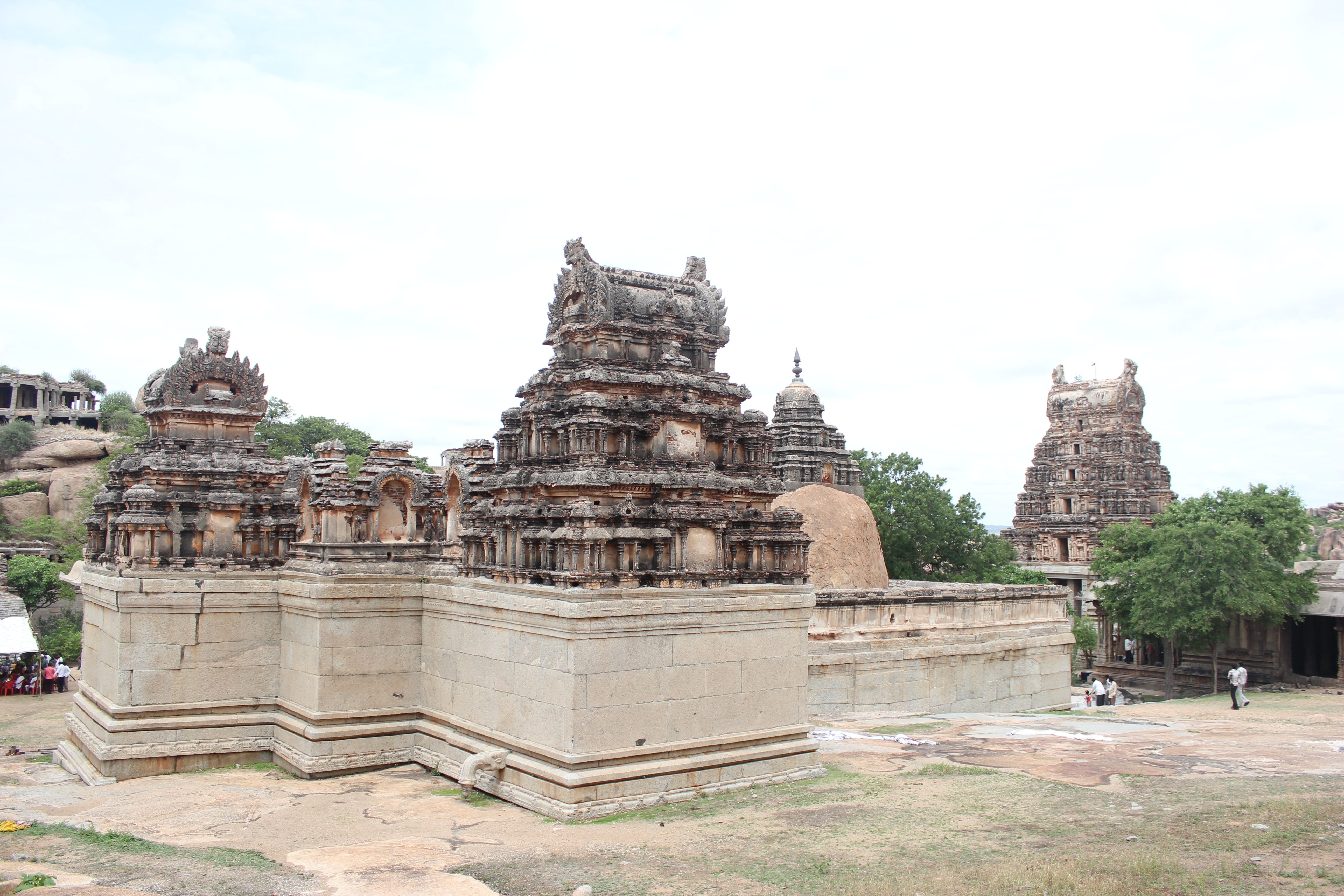 This photograph of sikhara (superstructure) over shrines in the Raghunatha temple, built by King Achyuta Raya (1529-1542 AD) was taken by me at Hampi, a UNESCO world heritage site in Bellary district, Karnataka state, India.